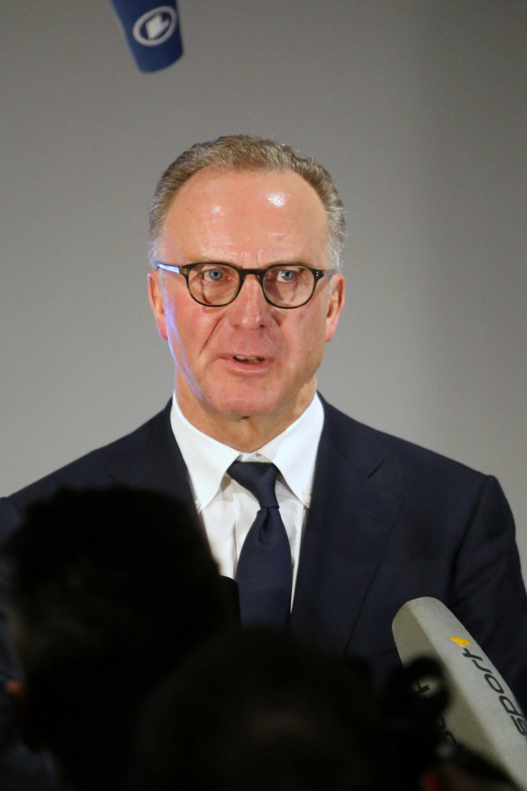 Karl-Heinz Rummenigge, CEO of FC Bayern Muenchen, at Allianz Arena (FC Bayern Erlebniswelt) on February 6, 2015 in Munich, Germany